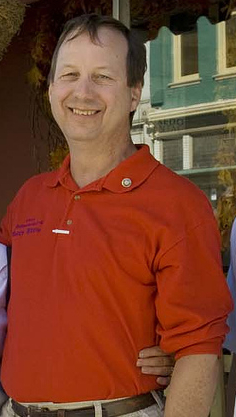 Missouri State Rep. Terry Witte -April M. Fronick, EAGLE 102 News